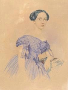 Tatiana Bakunin (1815-1872), sister of Mikhail Bakunin.